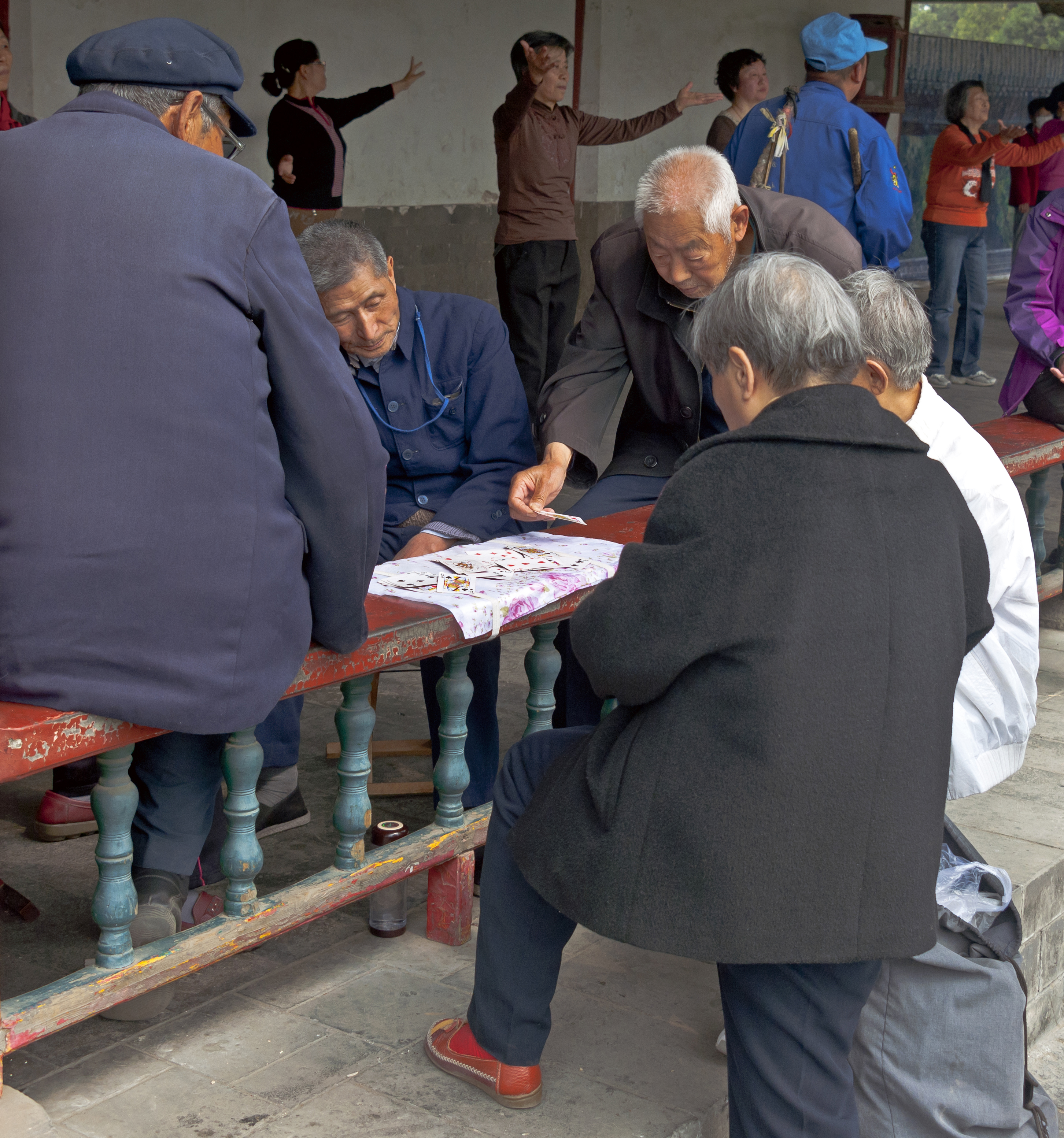 A group of senior citizens playing cards on a railing at Temple of Heaven Park in Beijing.